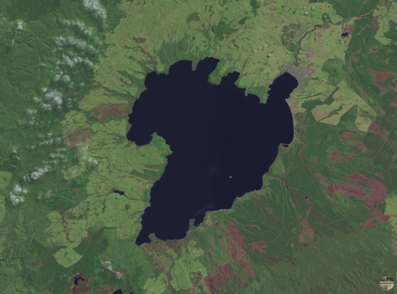 Lake Taupo in New Zealand's North Island